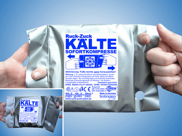 Instant Cold Pack